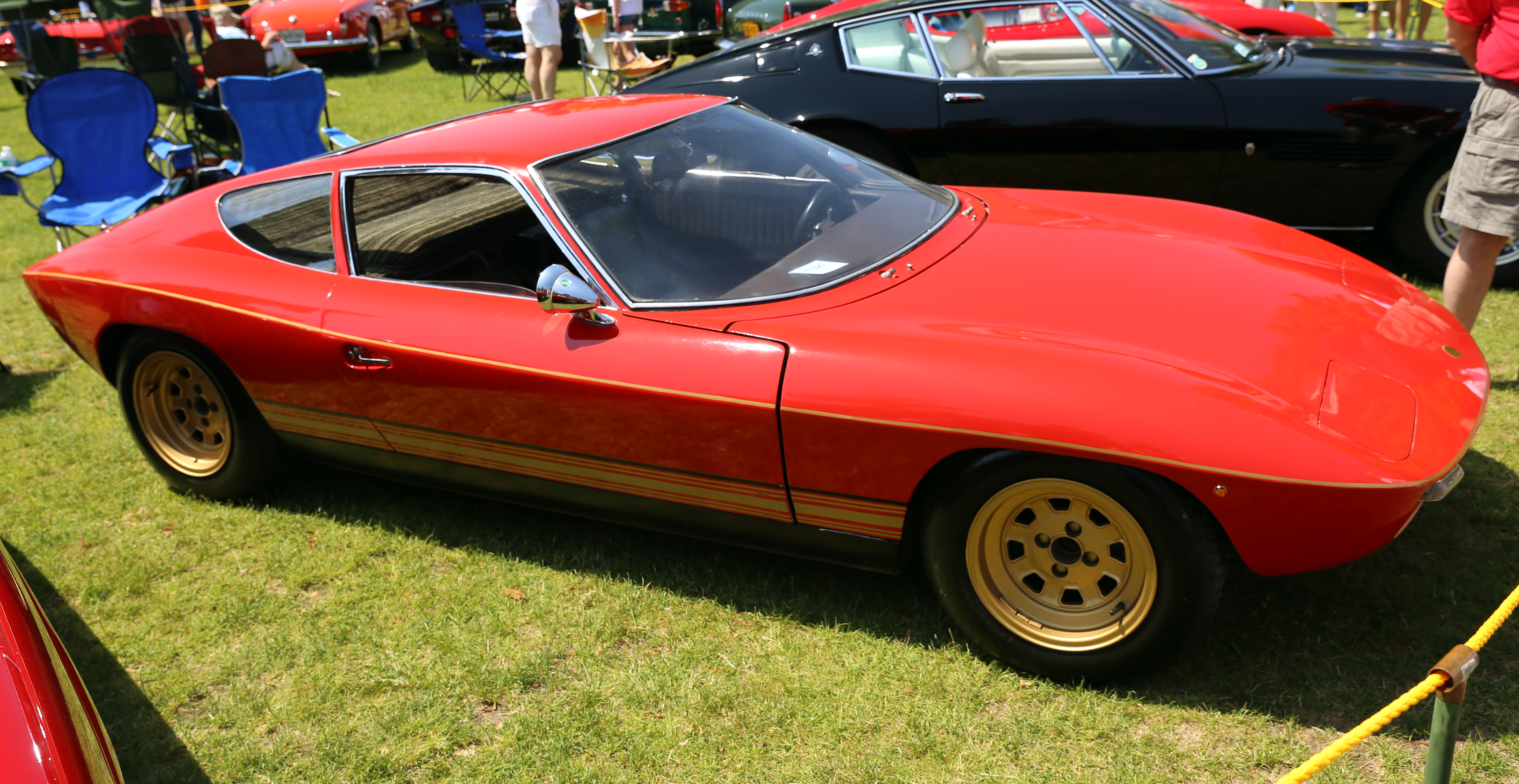 1968 Neri & Bonacini Studio GT Due Litri prototype at the 2013 Greenwich Concours d'Elegance. Two were built, but it stopped at that.